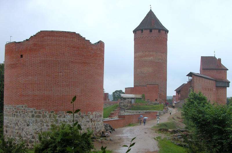 Turaida, Latvia: Castle in the rain.